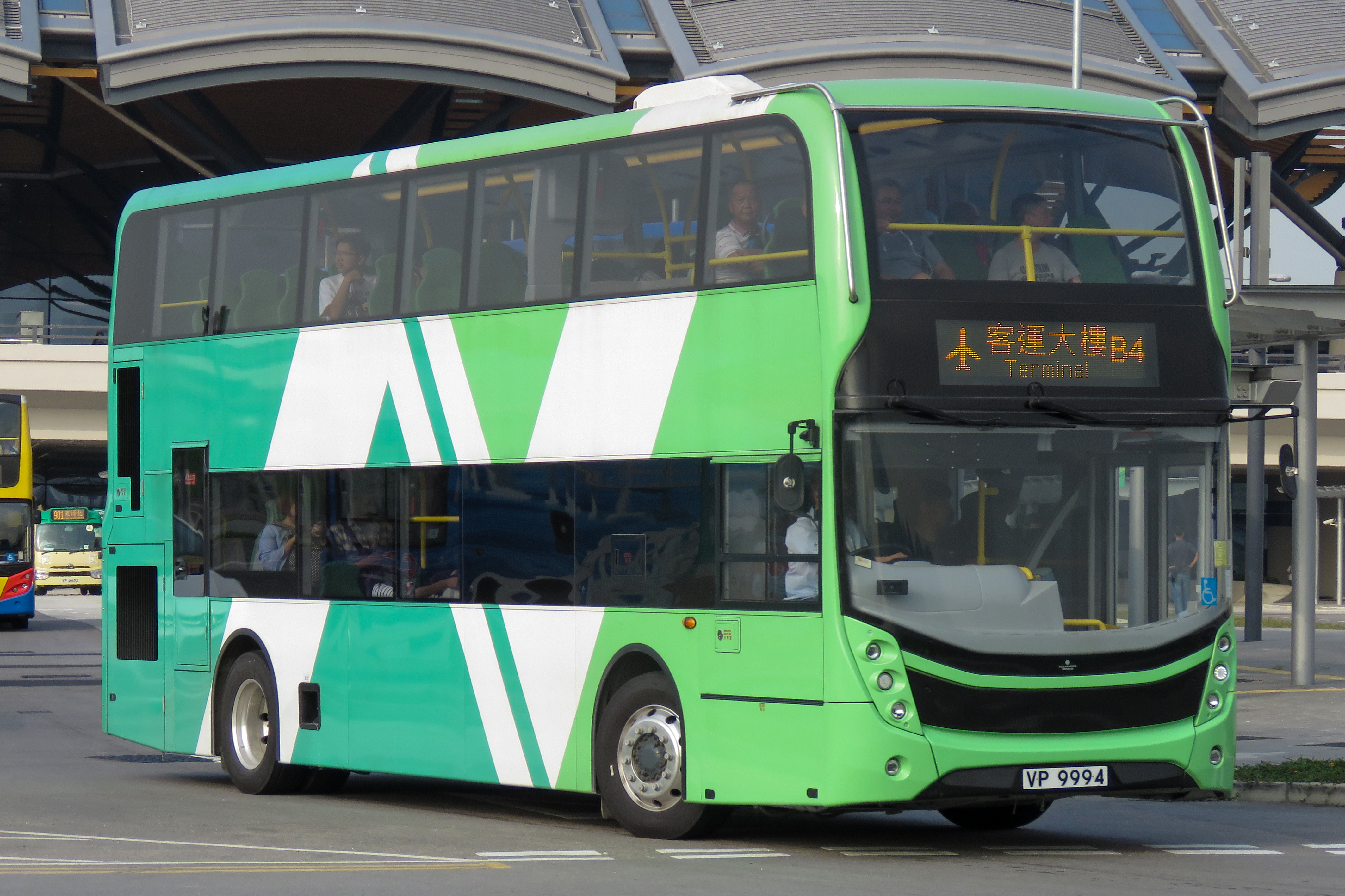 E400 is possibly enough for B4.